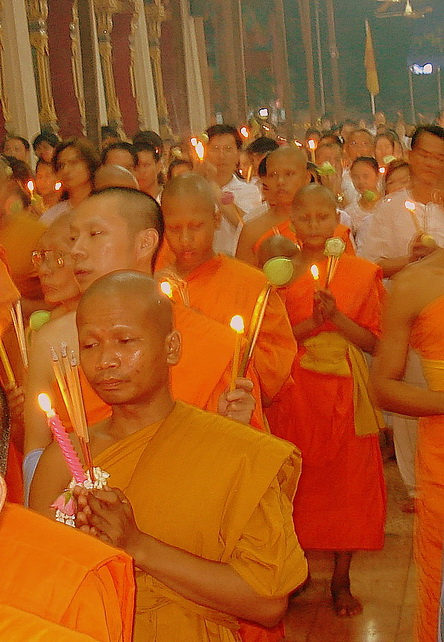 the ceremony walks with lighted candles in hand around a temple on Vesak in Bangkok, Thailand.